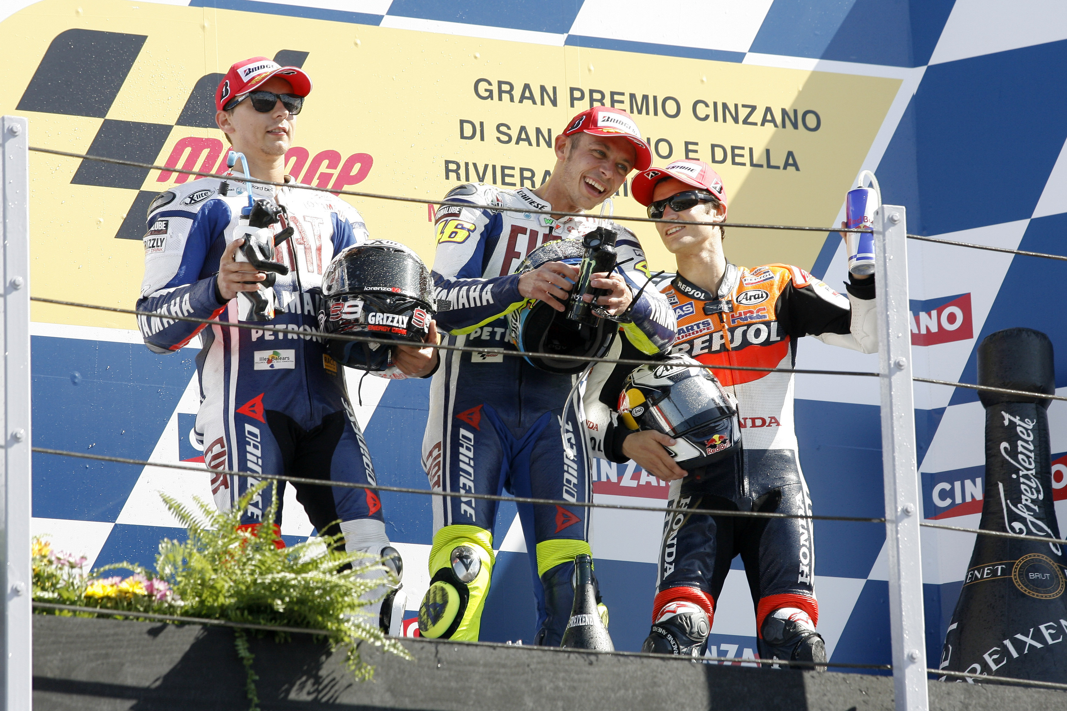 Jorge Lorenzo, Valentino Rossi and Dani Pedrosa, celebrating on the podium after finishing in second, first and third position at the 2009 San Marino and Rimini's Coast Grand Prix